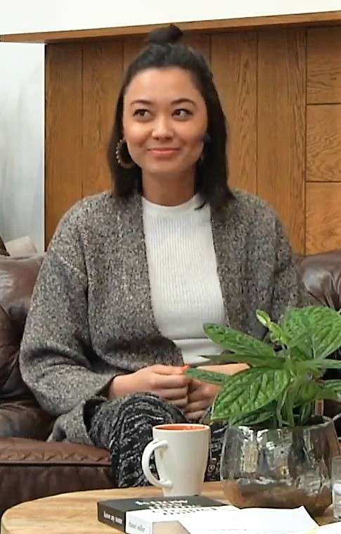 Chanel Miller: Know My Name We are honoured to announce that we will be hosting Chanel Miller at Room for Discussion. In 2015, Miller was sexually assaulted while attending Stanford University. The court case against the perpetrator Brock Turner - People v. Turner - received a significant amount of backlash due to its extremely lenient sentencing. Chanel’s story rose to public prominence after her victim impact statement went viral on the website Buzzfeed. In this statement, as well as media and court documents, her name was replaced by the pseudonym "Emily Doe". This promptly changed after her book 'Know My Name: A Memoir' was published in 2019. This brought up questions on how one should define victimhood and reclaim power when it comes to sexual assault. It also raises questions about the current campus culture and the #MeToo movement. We will talk about these questions and more on the 26th of February! Hope to see you there! Who: Chanel Miller When: 26th of February 1pm - 2pm Interviewers: Carli Kooijman and Zoé Gáspár Do you want to see more interviews and be the first to hear about upcoming guests? Follow us here: Website: Facebook: Instagram: Twitter